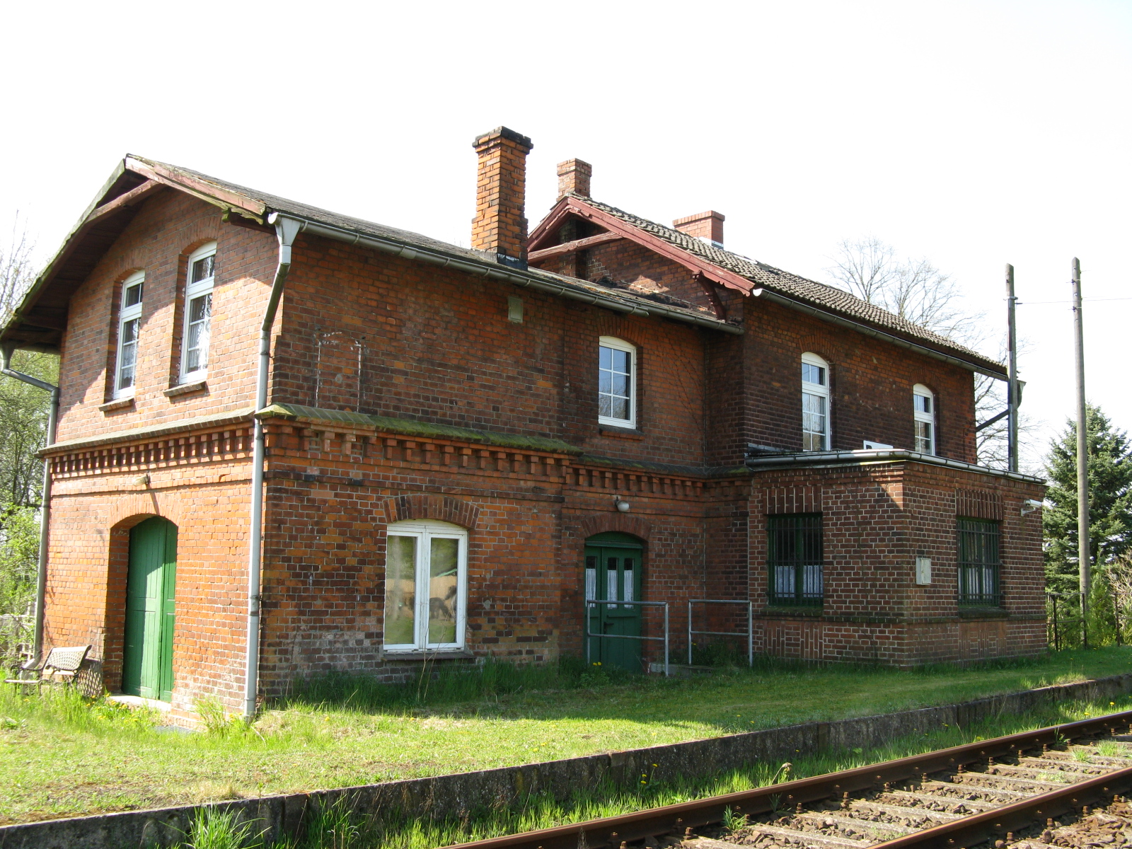 Train station in Rom (Mecklenburg), Germany